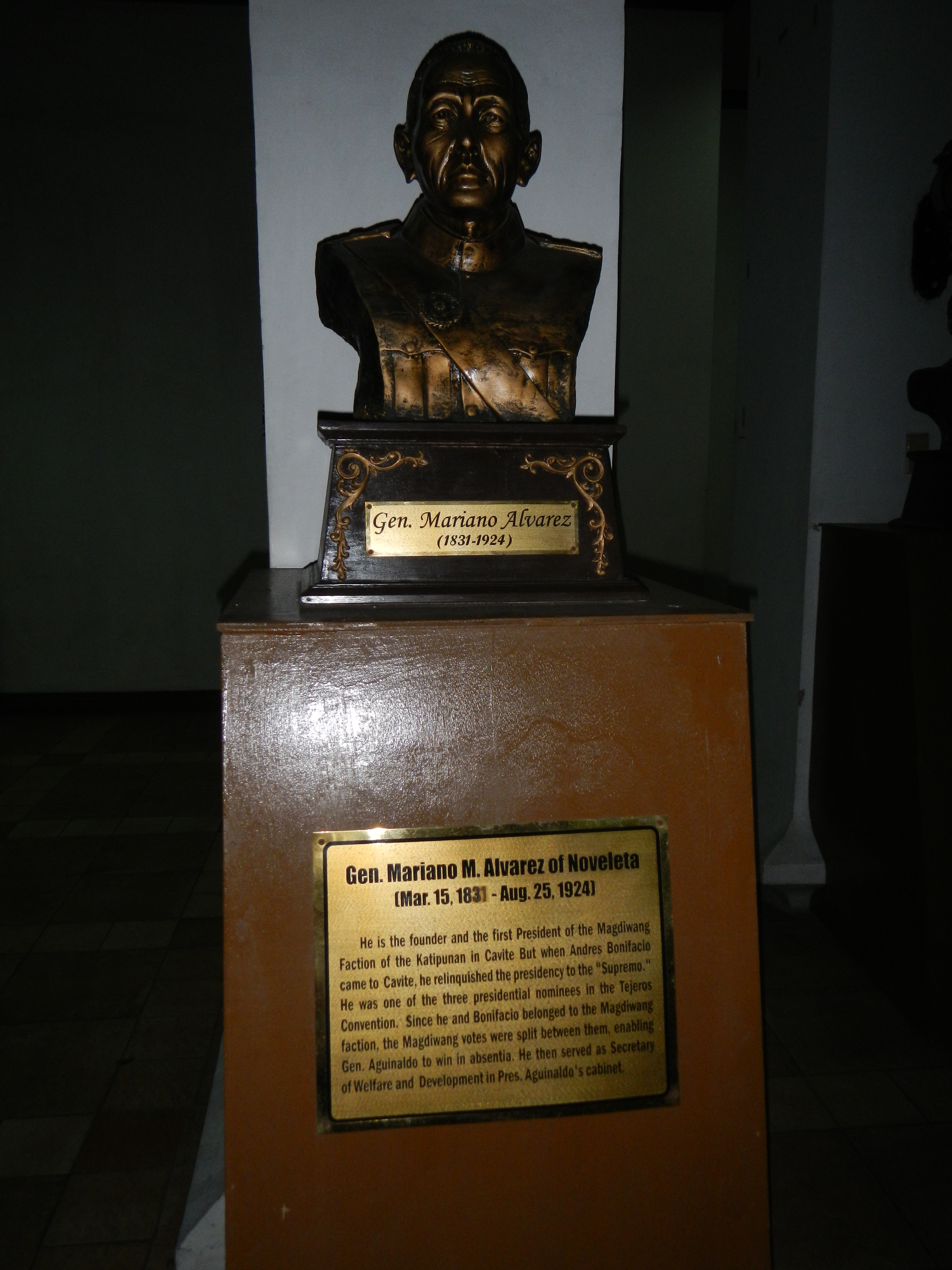 Dusk photos of the Tejeros Convention[1] (alternate names include Tejeros Assembly and Tejeros Congress) was the meeting held between the Magdiwang and Magdalo factions of the Katipunan at San Francisco de Malabon,[2] Cavite on March 22, 1897. These are the first presidential and vice presidential elections in Philippine history, although only the Katipuneros (members of the Katipunan) were able to take part, and not the general populace.[3] [4] [5] Coordinates: 14°24'3"N 120°51'38"E[6] Cavite celebrates Tejeros convention anniversary, founding of Philippine Army 21st of March 2012 The 115th Anniversary of Tejeros Convention and the Founding of the Philippine Army was celebrated at Casa Hacienda, Tejeros Convention on March 16. ---------[N.B. Photography of Rosario, Cavite[7]: 30% cloudy and 70% sunny weather using my Nikon AW 100 waterproof shockproof camera. From Bulacan at 9:35 a.m., I took photo of the Baliuag Transit Original station, and at 11:38 a.m., the 5th Avenue LRT Station[8]; then I arrived at Rosario, Cavite and captured Noveleta Battle bridge at 2:08 pm, and then the Salinas Town or Rosario, Cavite at 2:33 pm and finished photography at 7:04 pm, and arrived at Bulacan at 11:30 pm after 4+ hours of travel by bus, and started uploading via slow internet at 11:40 pm - I hereby certify that these raw, original and unedited photos are exclusive for Commons and Wikipedia never uploaded in any Internet or any site, and for the public domain without any condition.]